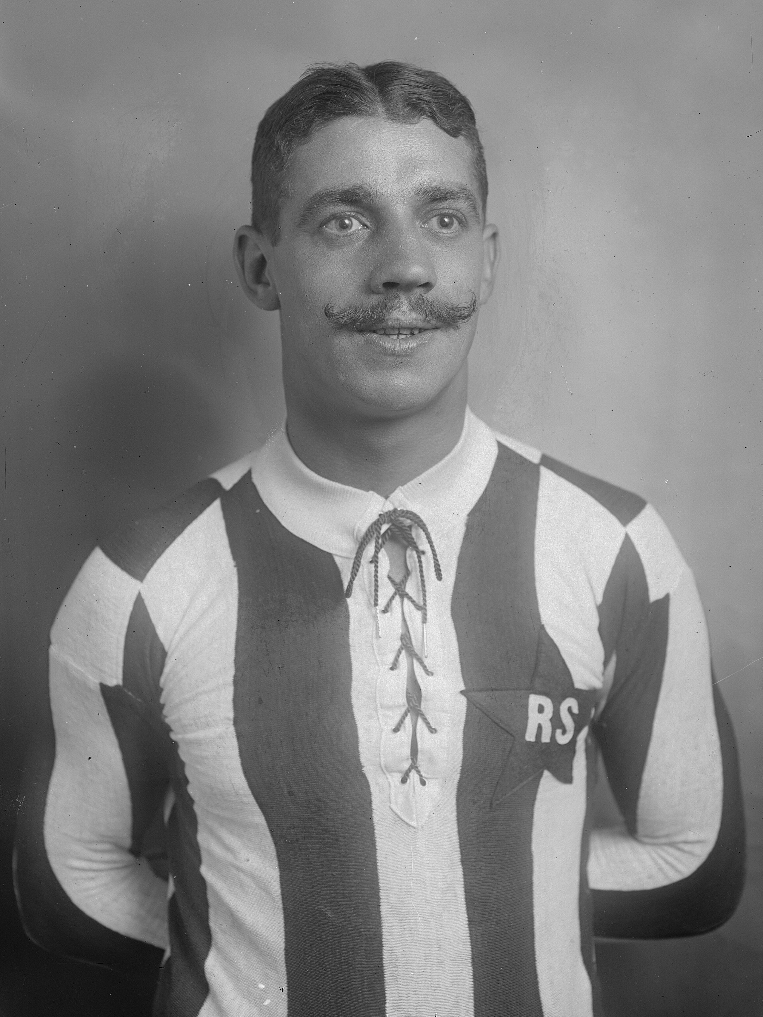 Eugène Maës' portrait